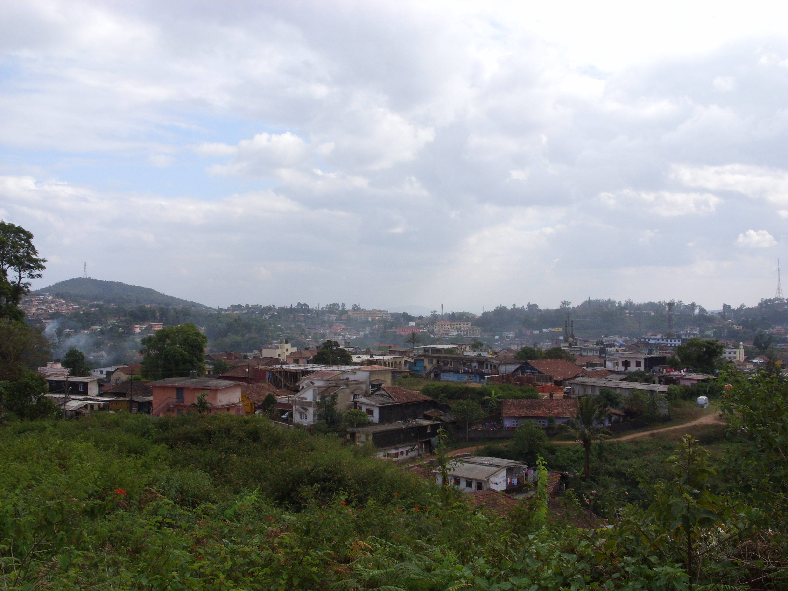 The outskirts of Madikeri, Karnataka, India.